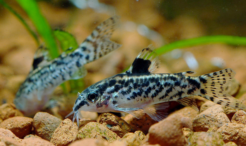 Aquarium photo of _Aspidoras pauciradiatus_ (Siluriformes: Callichthyidae). Fish in foreground is male.